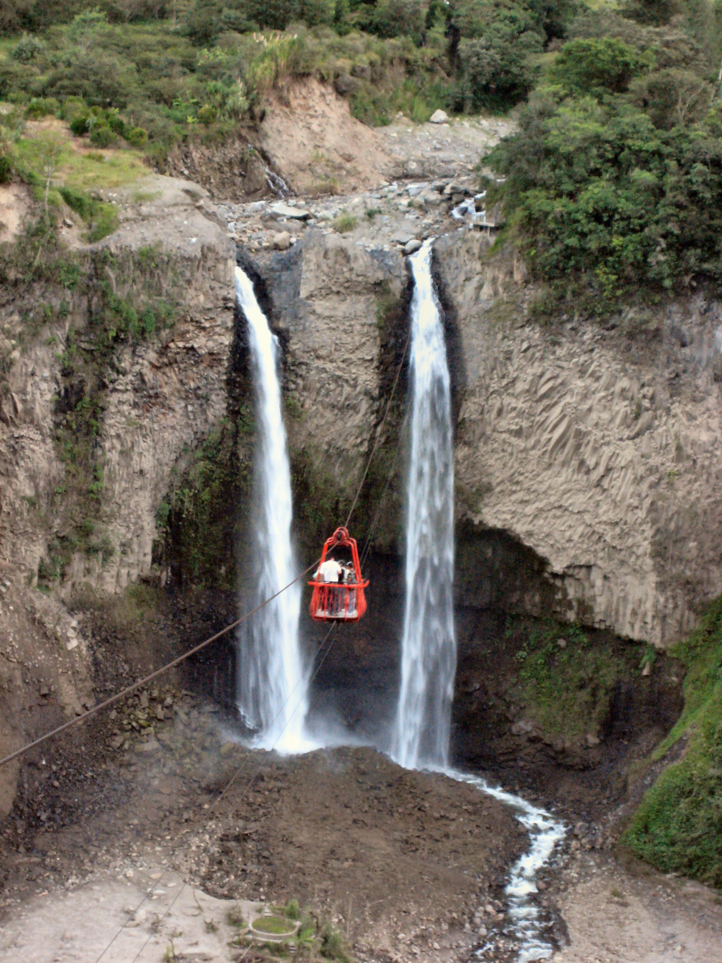 Cable Car. Manto de la novia waterfall, Baños.